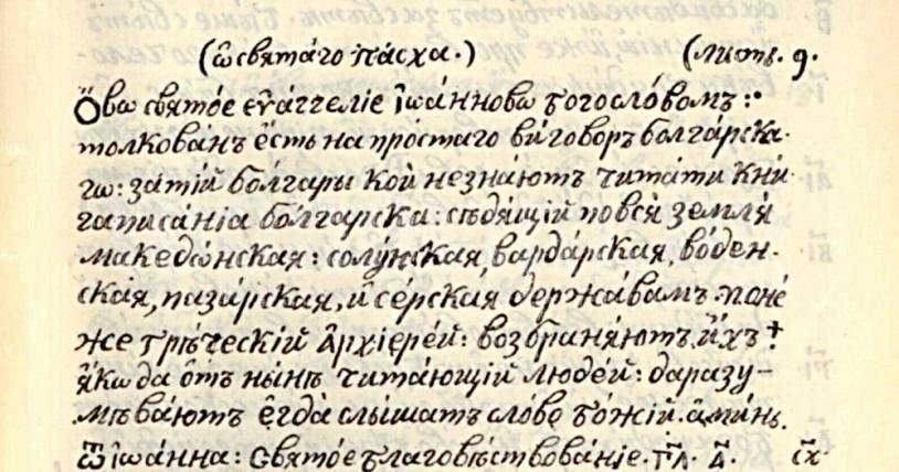 Easter Gospel by Stoyan Chalakov 02